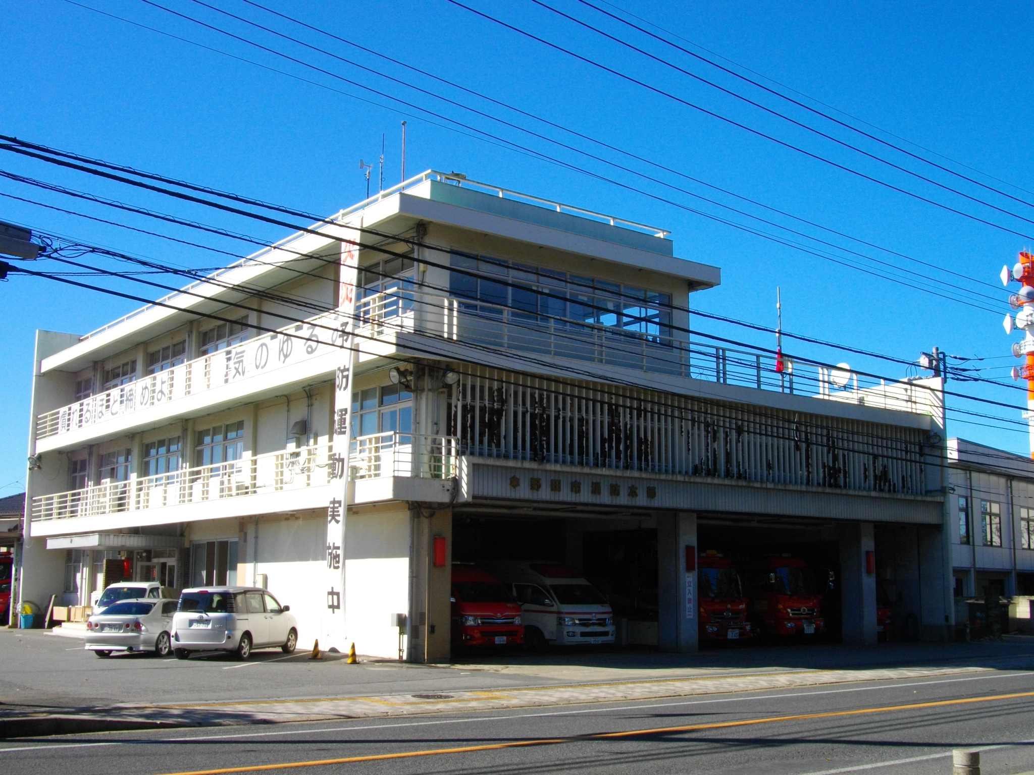 Noda City Fire Department